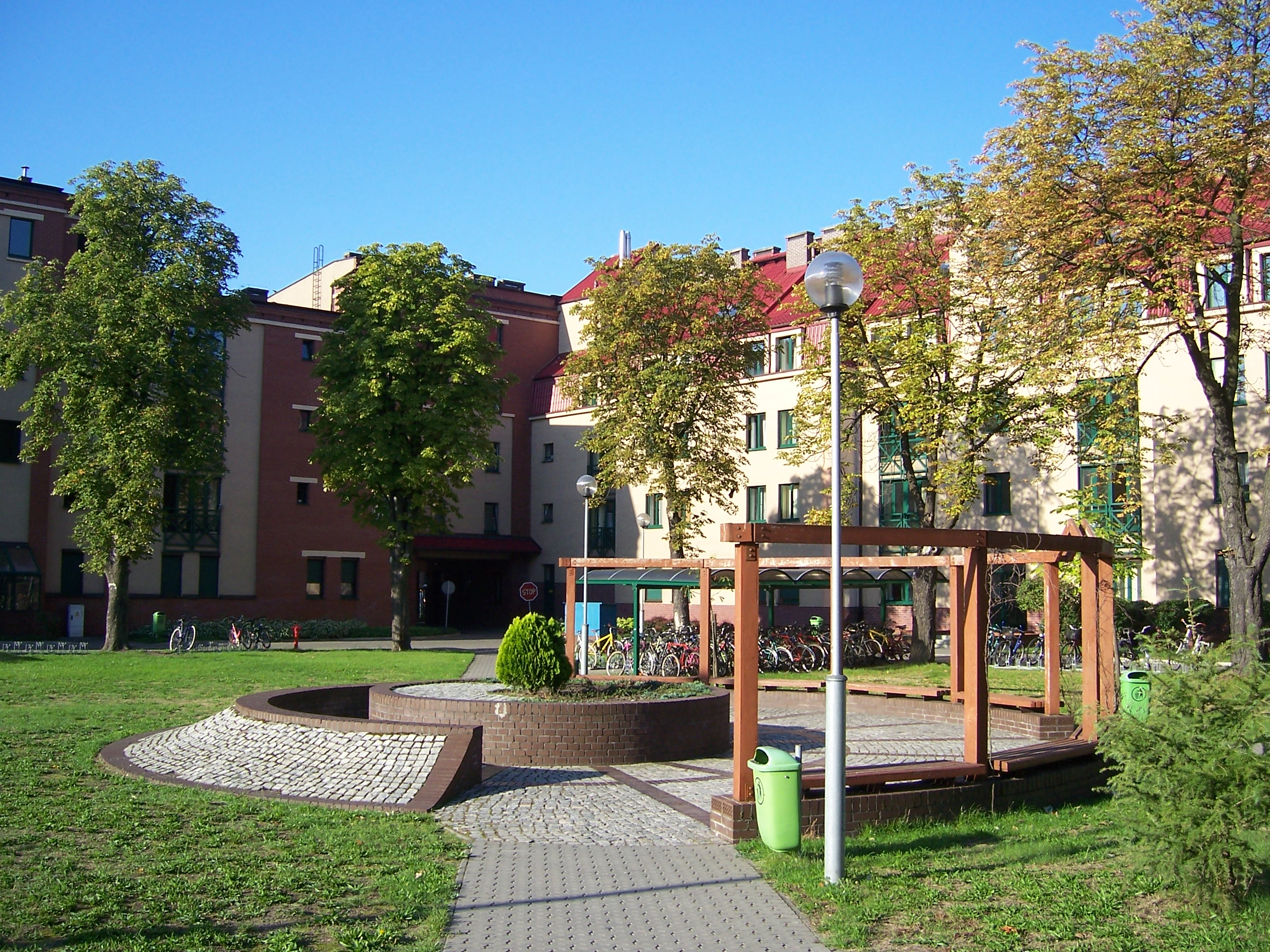 Inner court of the Student Dormitory Campus in Slubice